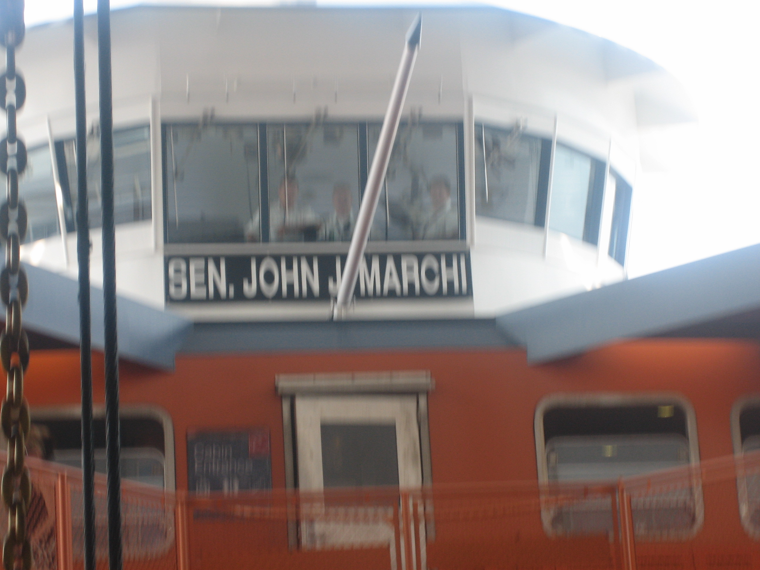 I took photo on July 8, 2007.Billy Hathorn (talk) 13:47, 27 June 2008 (UTC)